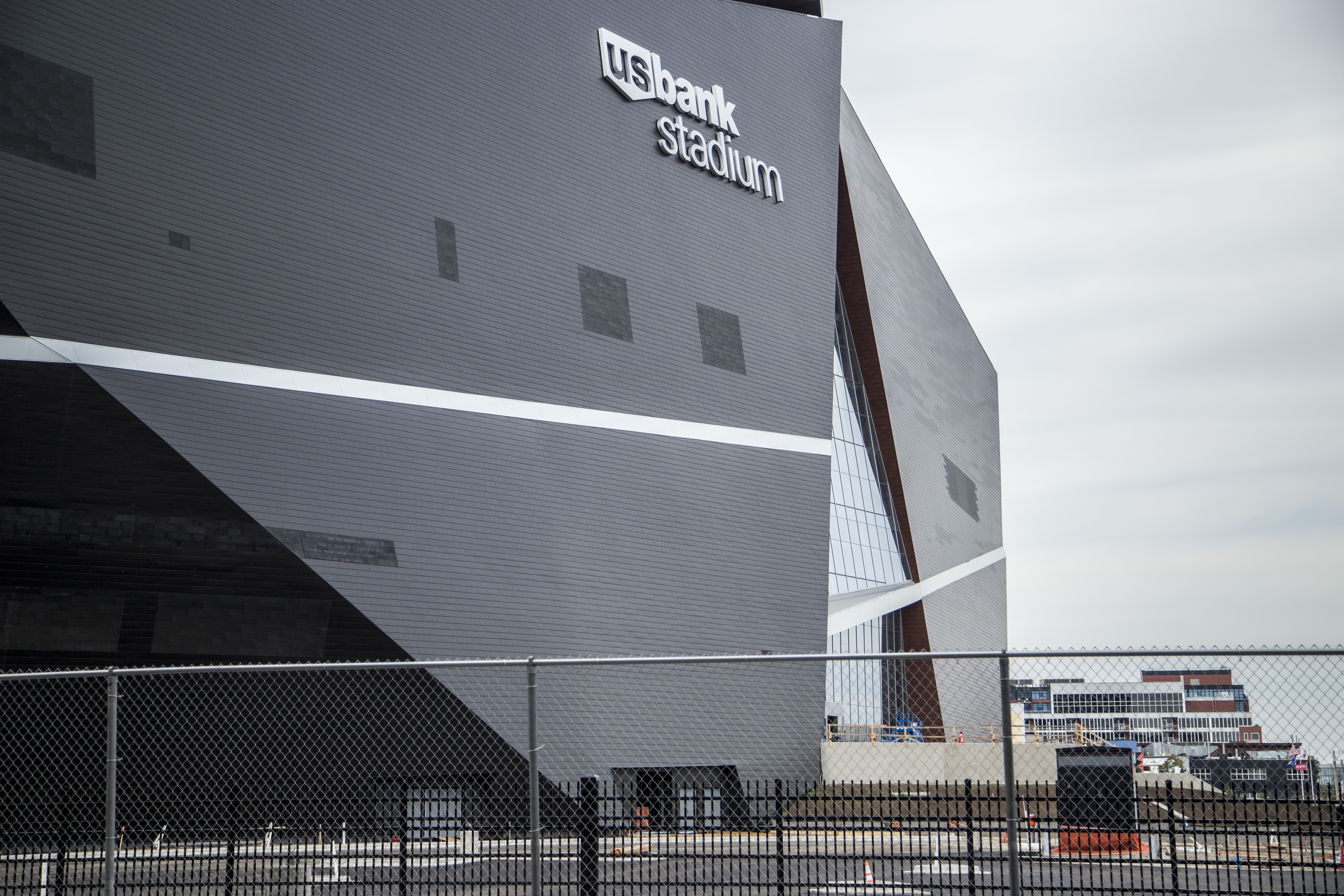 The progress of US Bank Stadium construction on Sep. 5, 2015 showing the southeast side of the stadium.